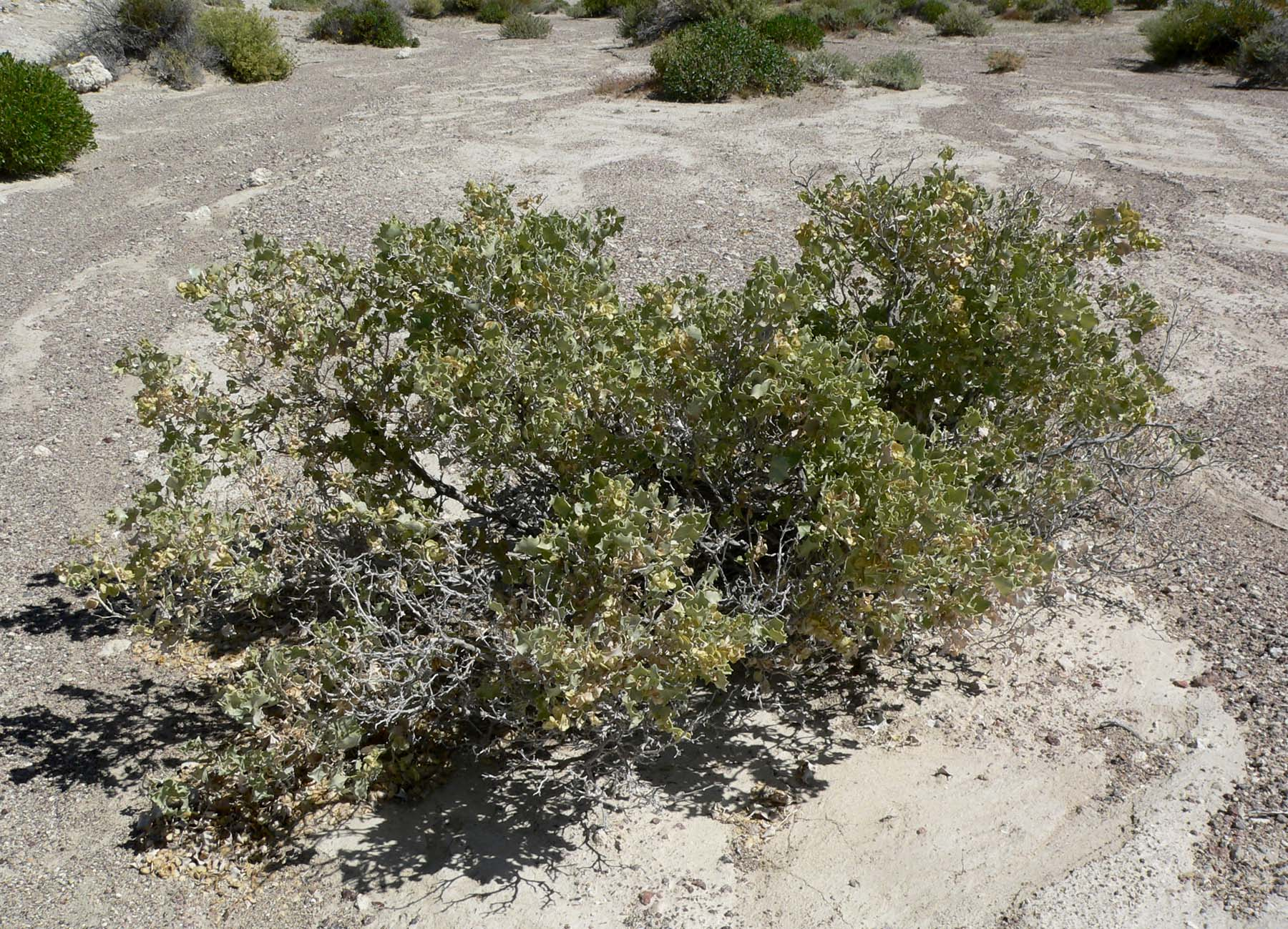 Photo of Atriplex hymenelytra (desert holly) near Shoshone, California